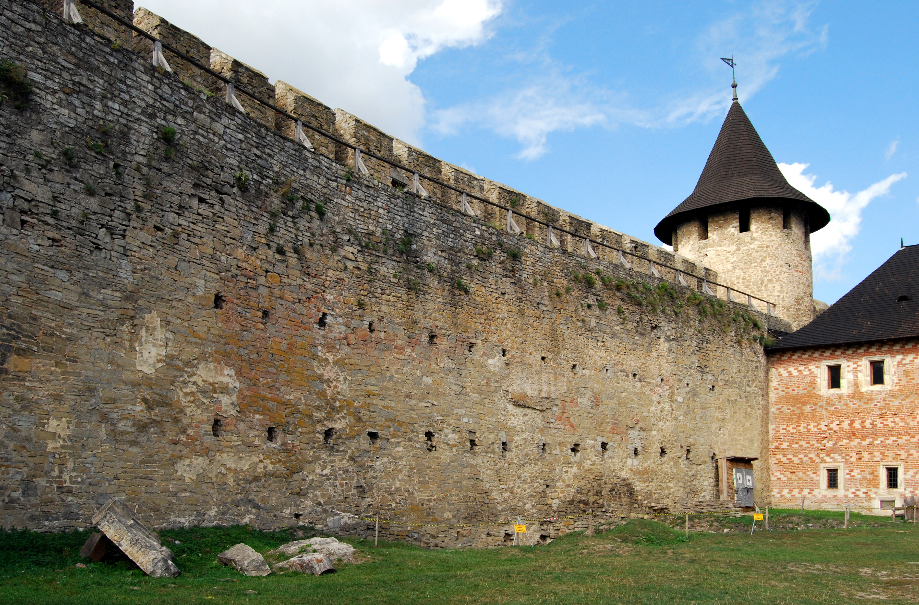 Khotyn Fortress